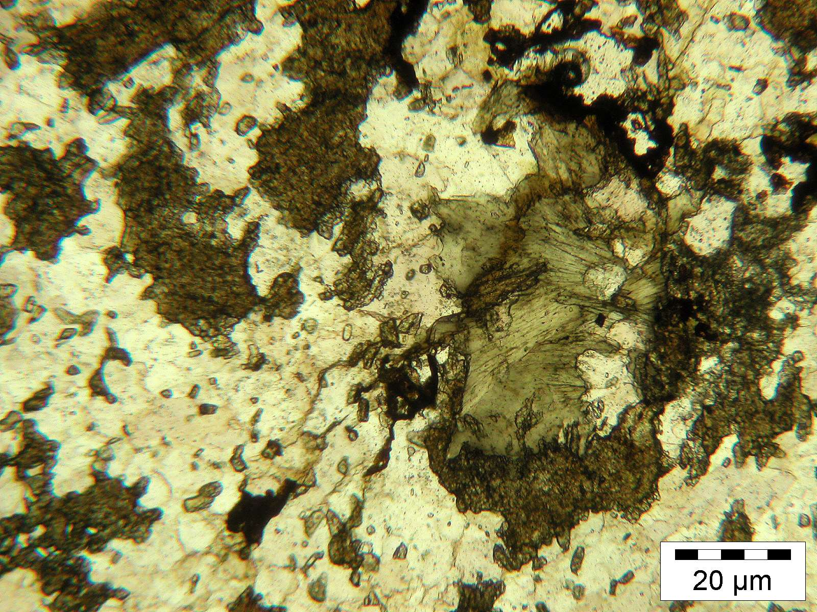 Orthite(dark) and melilite (green) with quartz, parallel light, compare Bild_12.jpg